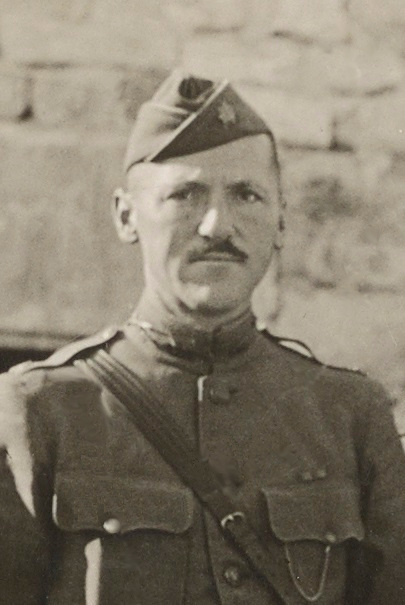 Maj. C.C. Drake Adj. to Brig. Gen. E.E. Both, CG 8th Inf. Brigade, Haudainville, Meuse, France, Sept. 1918 (image cleaned and partially repaired)